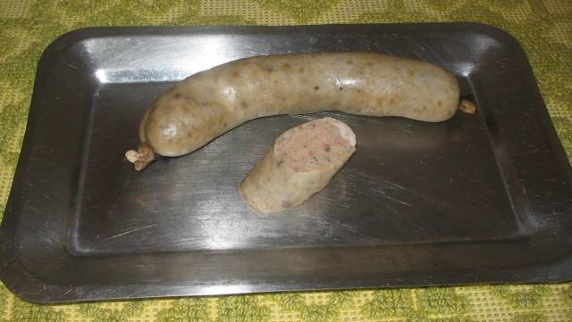 Home made boiled liver sausage served in Ukraine, Poland, Belarus and Russia